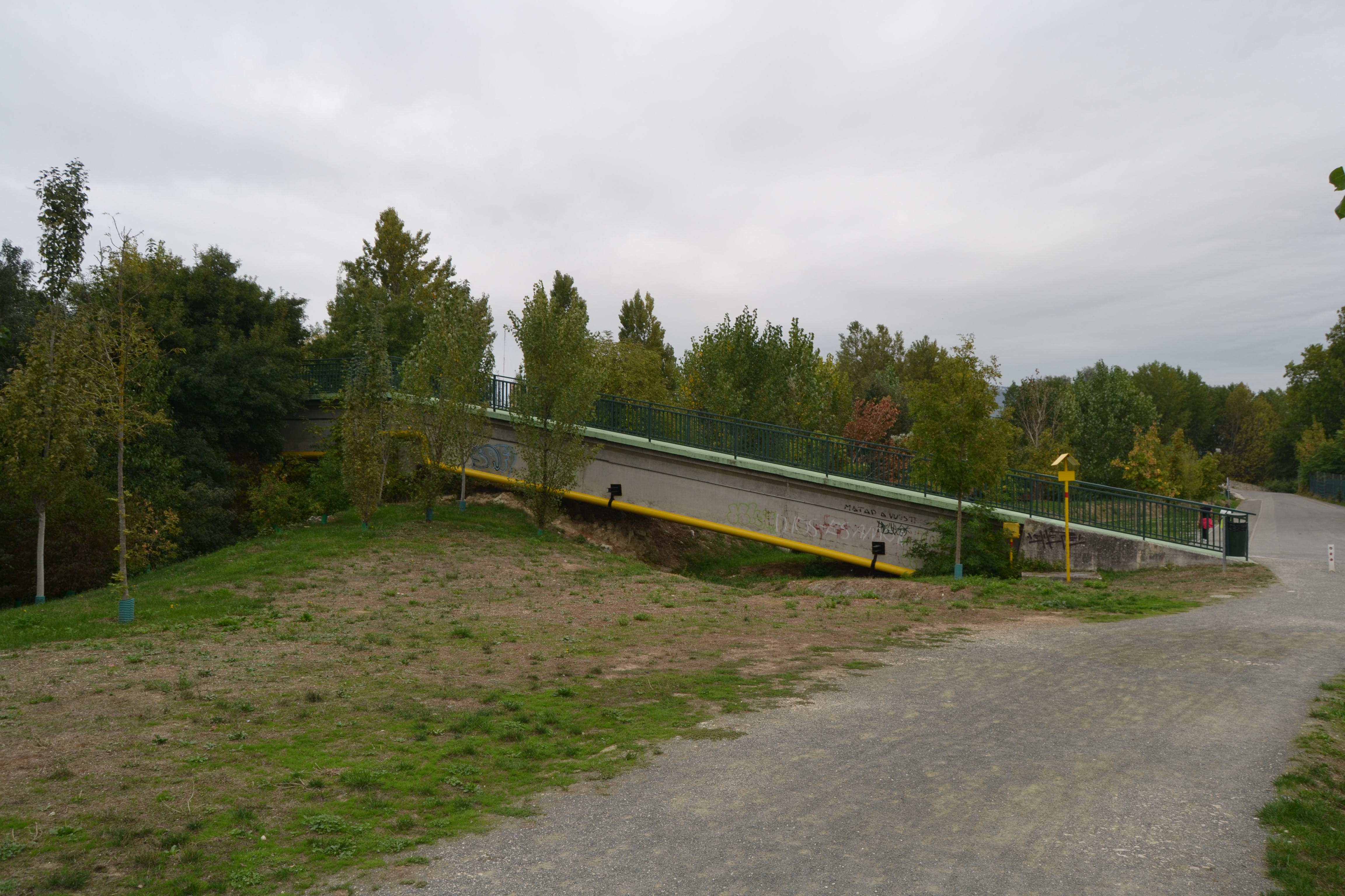 Mintegi's Bridge / Bridge of Viveros, Iruñea-Pamplona, Navarre. Basque Country.